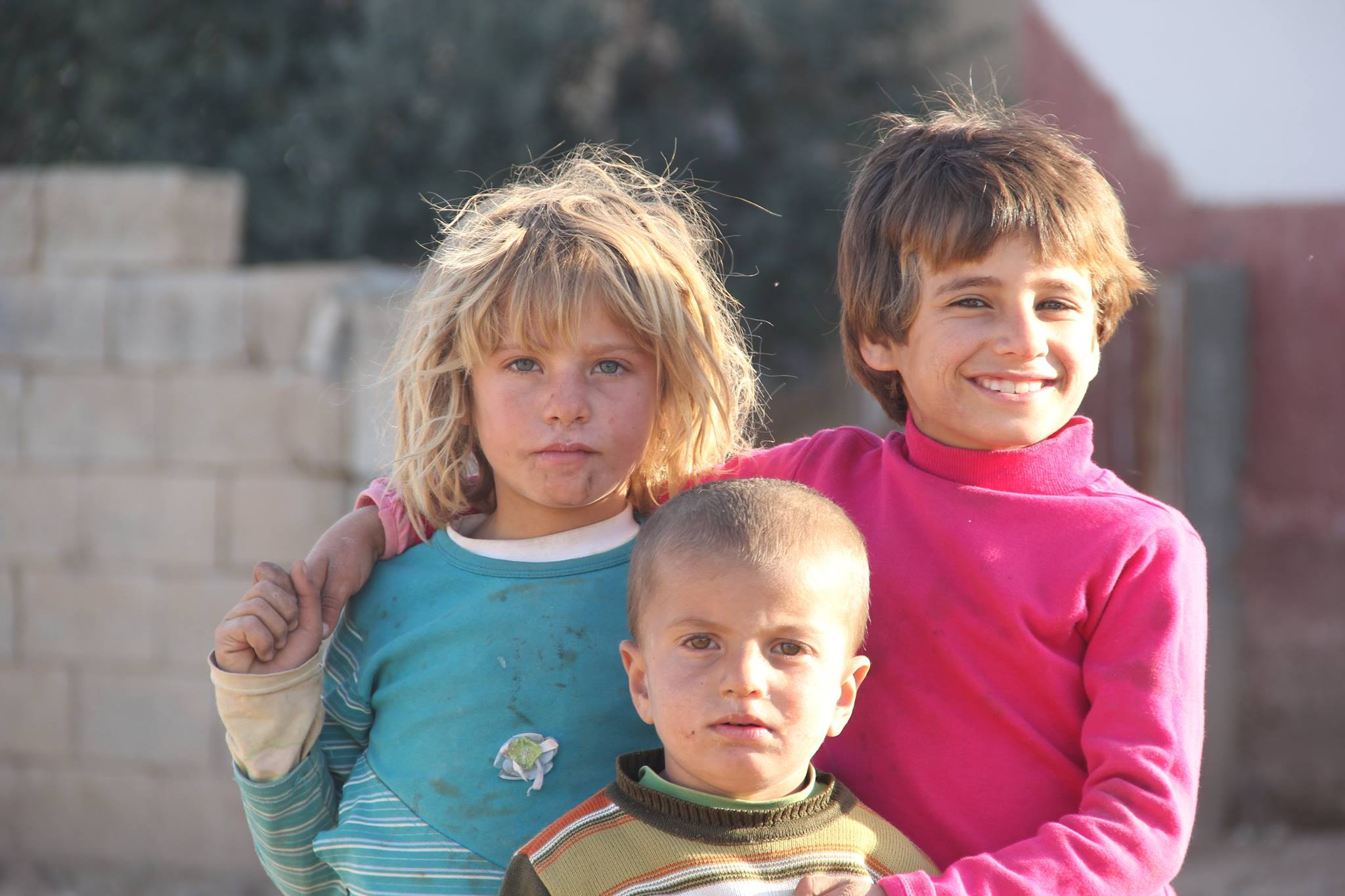 photo taken by Yannis Vasilis Yaylali (my friend)